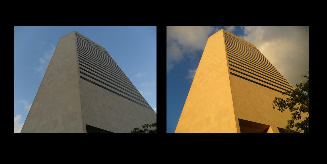 Two photos of the Stephen P. Clark Government Center building in Downtown Miami taken with the same camera using two different color balance settings. Made with Microsoft Paint using two photos taken by me with a Samsung SL50